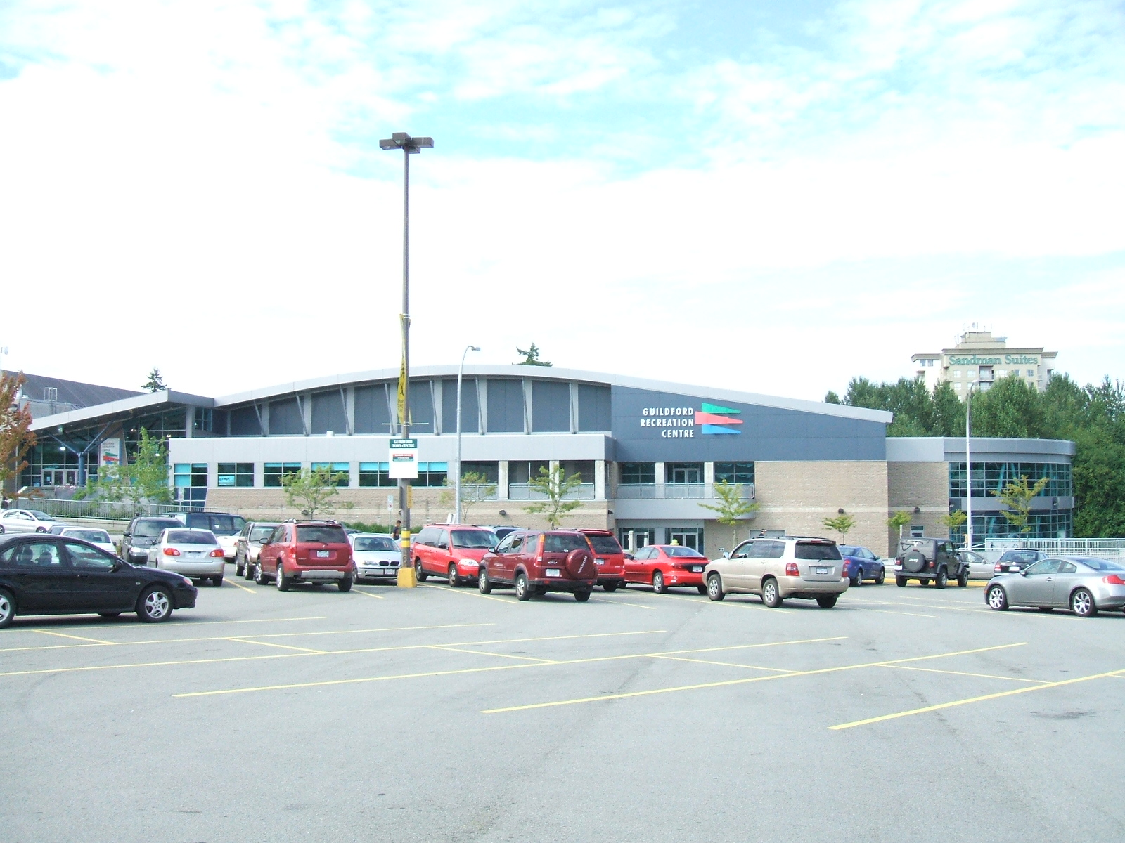 The Guildford Recreation Centre at 15105 105 Avenue in the City of Surrey, BC, Canada.